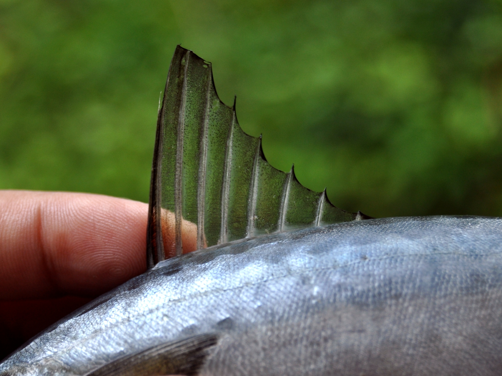 Pacific Chub Mackerel, Scomber japonicus, 225mm FL. From local market in Bogor, West Java, Indonesia. First dorsal fin, with IX spines.